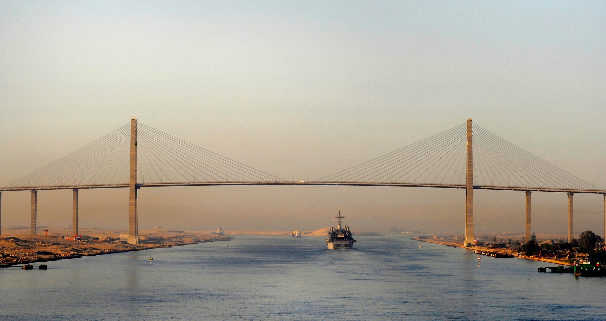 The Egyptian-Japanese Friendship Bridge in El Qantara, Egypt.